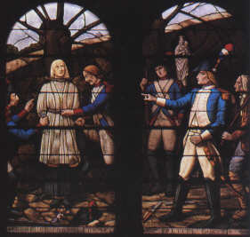 Stained glass window of the Saint-Pierre church in Les-Lucs-sur-Boulogne, presenting the martyrization of Louis Michel Voyneau by the French republican soldiers.